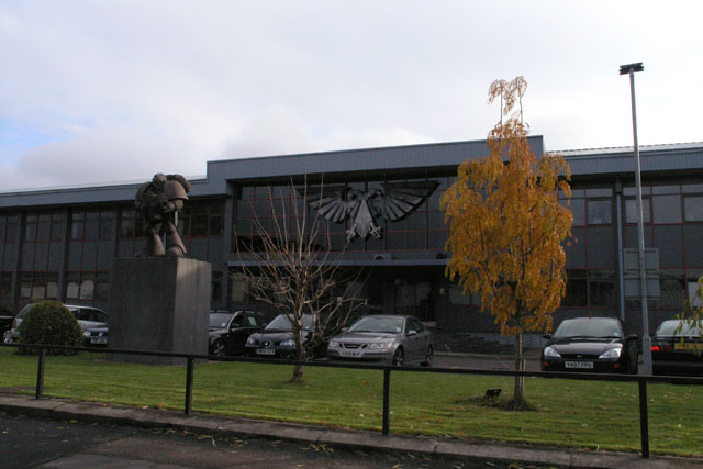 Games Workshop headquarters For devotees of the Warhammer games. But then real devotees will have seen this when visiting Warhammer World nextdoor.